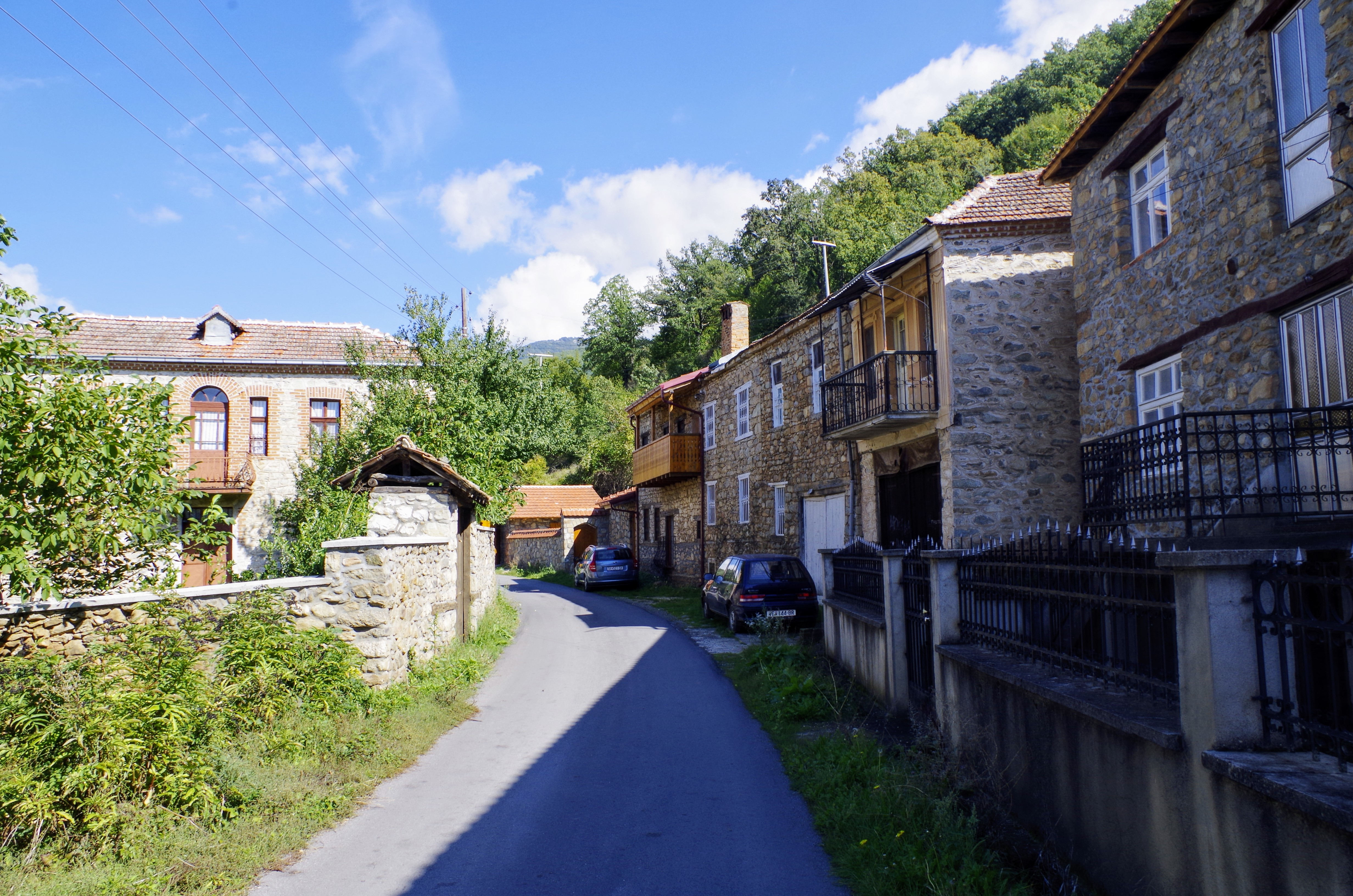 View of the old houses in the village Ljubojno